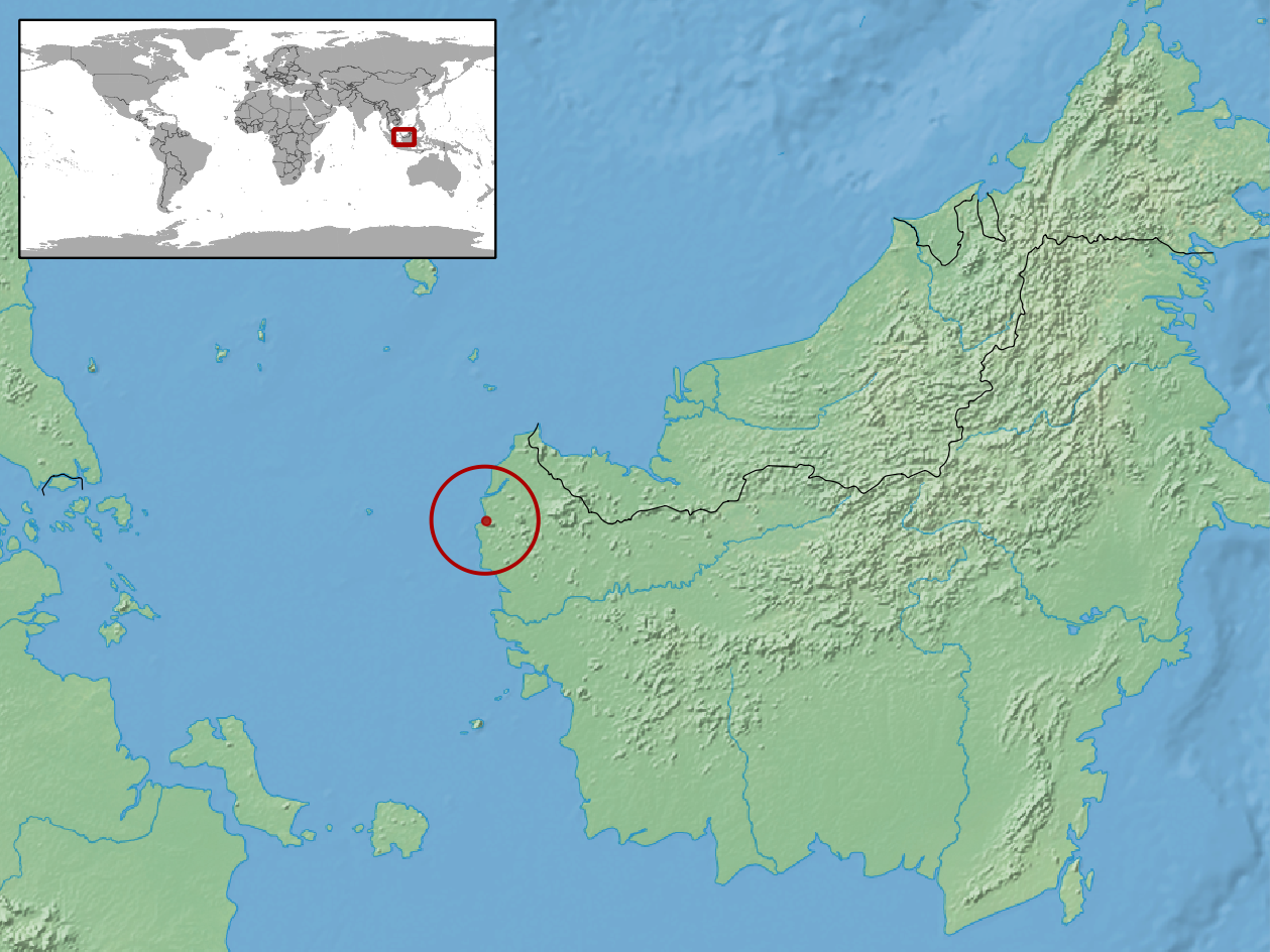 geographic distribution of Calamaria rebentischi (Native: Indonesia (Kalimantan))